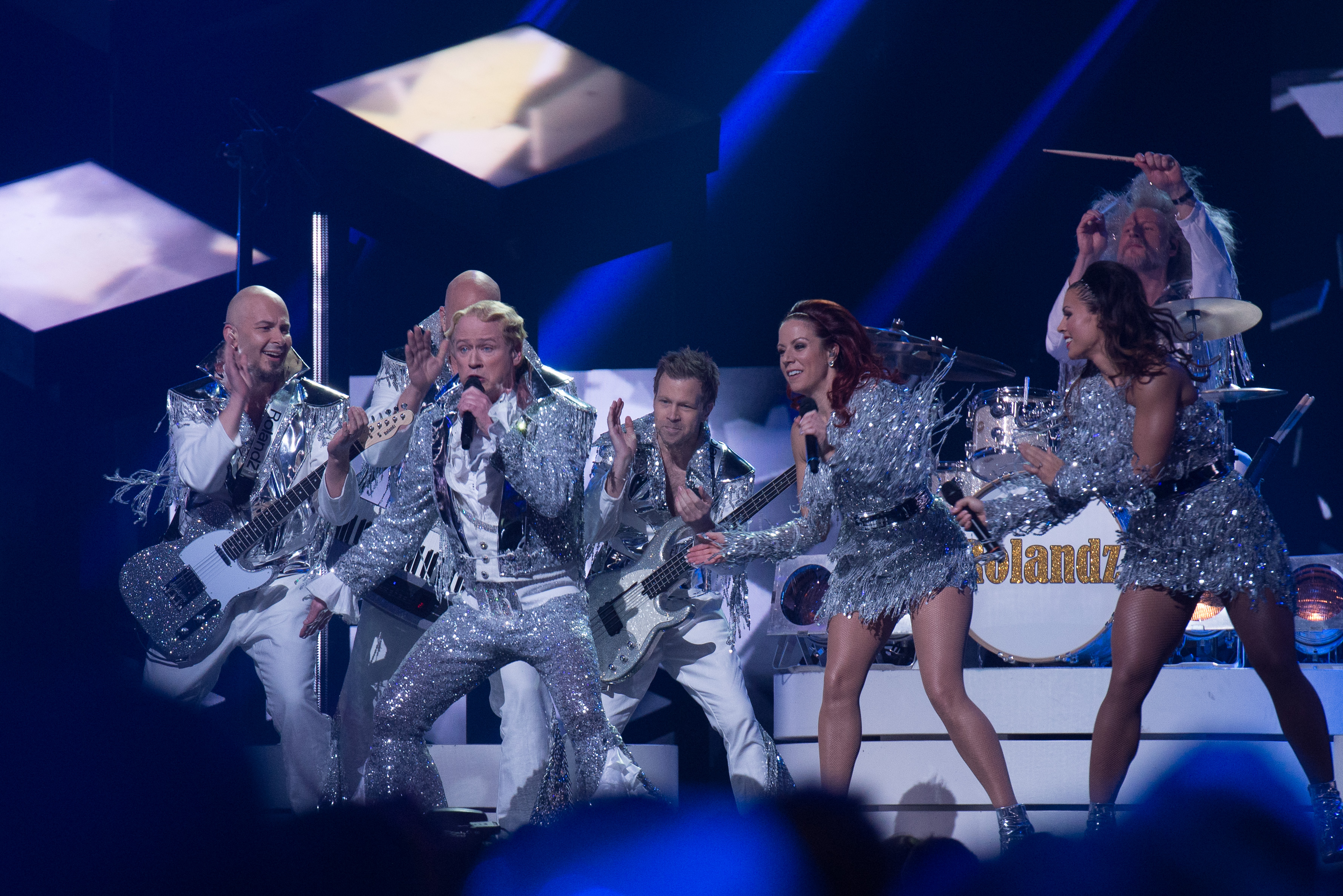 Melodifestivalen 2018 Final in Stockholm